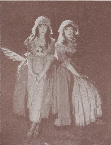 Lillian Gish as Henriette and Dorothy Gish as the blind Louise in the Griffith Films, "The Two Orphans", from a 1921 publication. Photograph by Abbe.